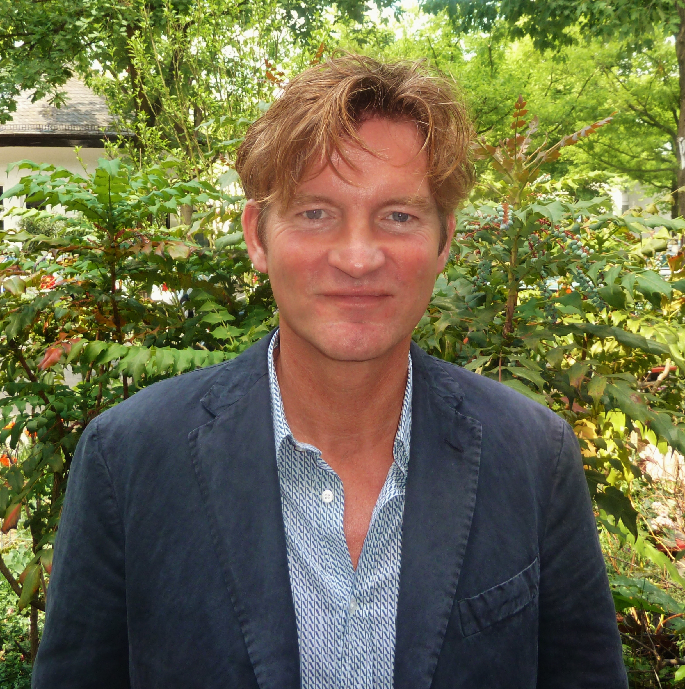 German actor, voice artist and author Philipp Moog in Berlin